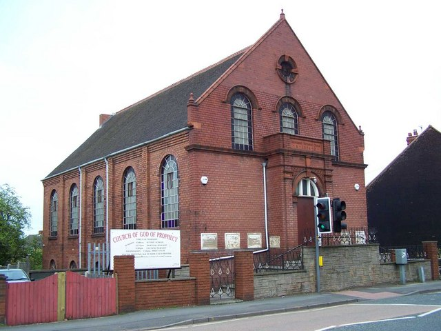 Church of God of Prophecy, High Oak, Pensnett, West Midlands, seen from the southeast. Formerly an Independent Methodist church.